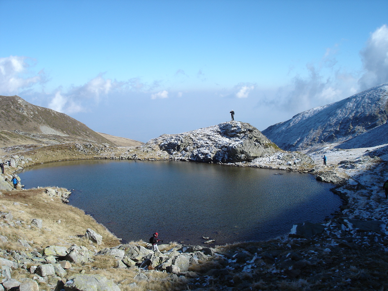 Upper Dobroshko Lake on Shar Mountain, Macedonia